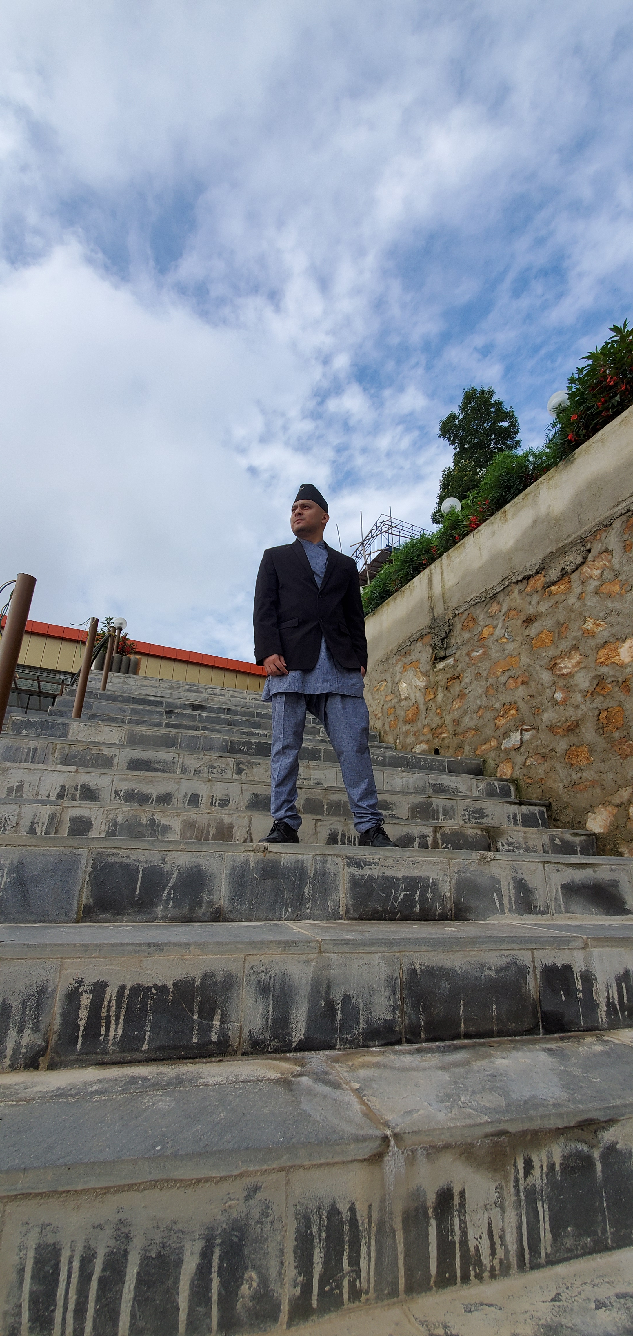 dhaka topi